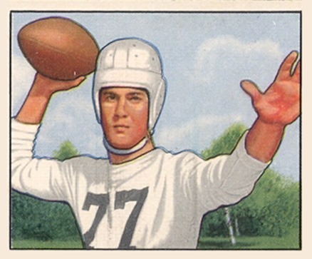 American football player Bobby Gage on a 1950 Bowman card.